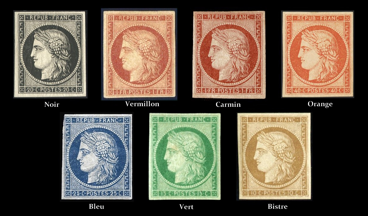 French first stamps emission, Ceres : 1st and 2nd series : 1849 and 1850 Stamps history, stamps of France, 2de Republique